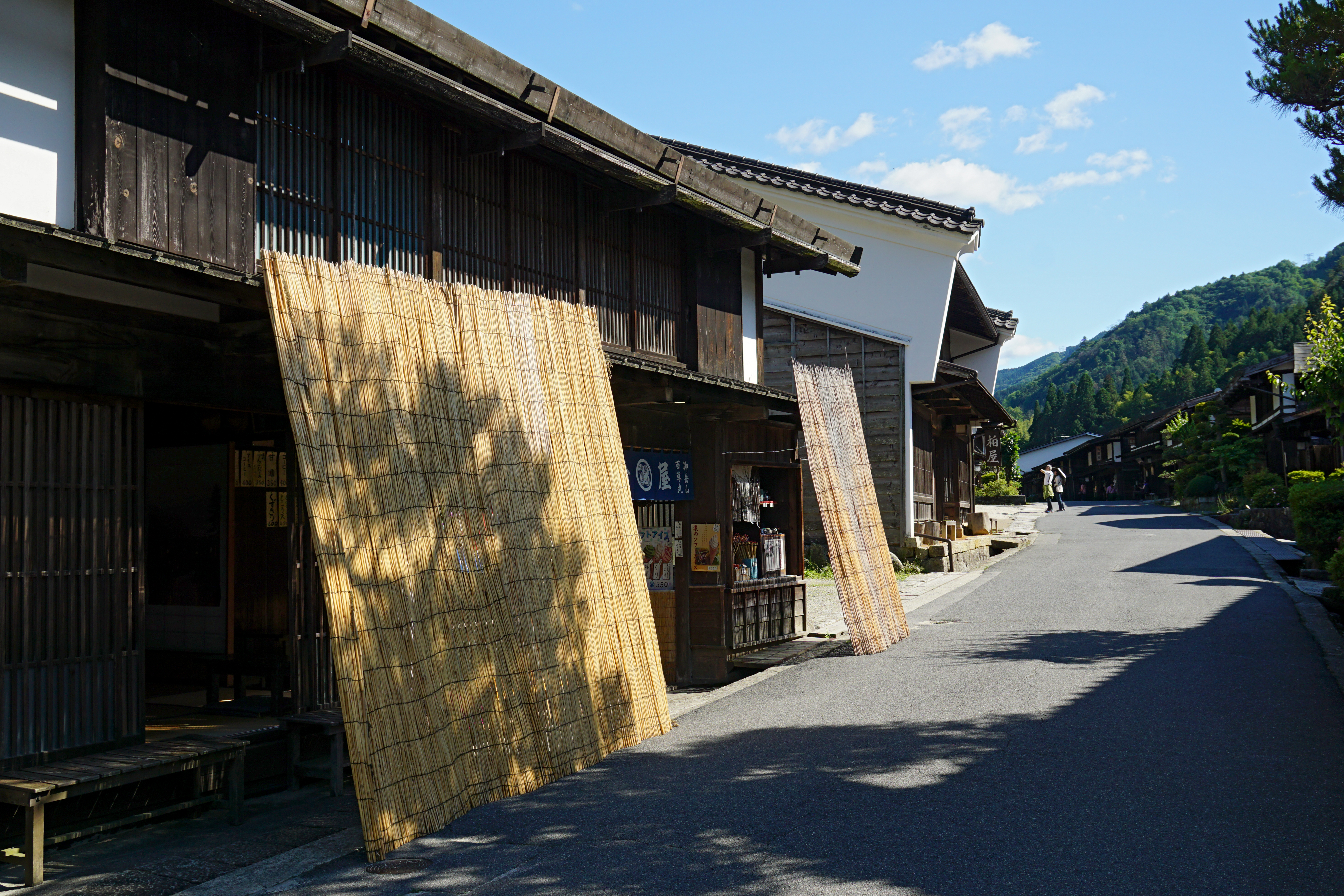 At Tsumago-juku in Nagiso, Nagano prefecture, Japan